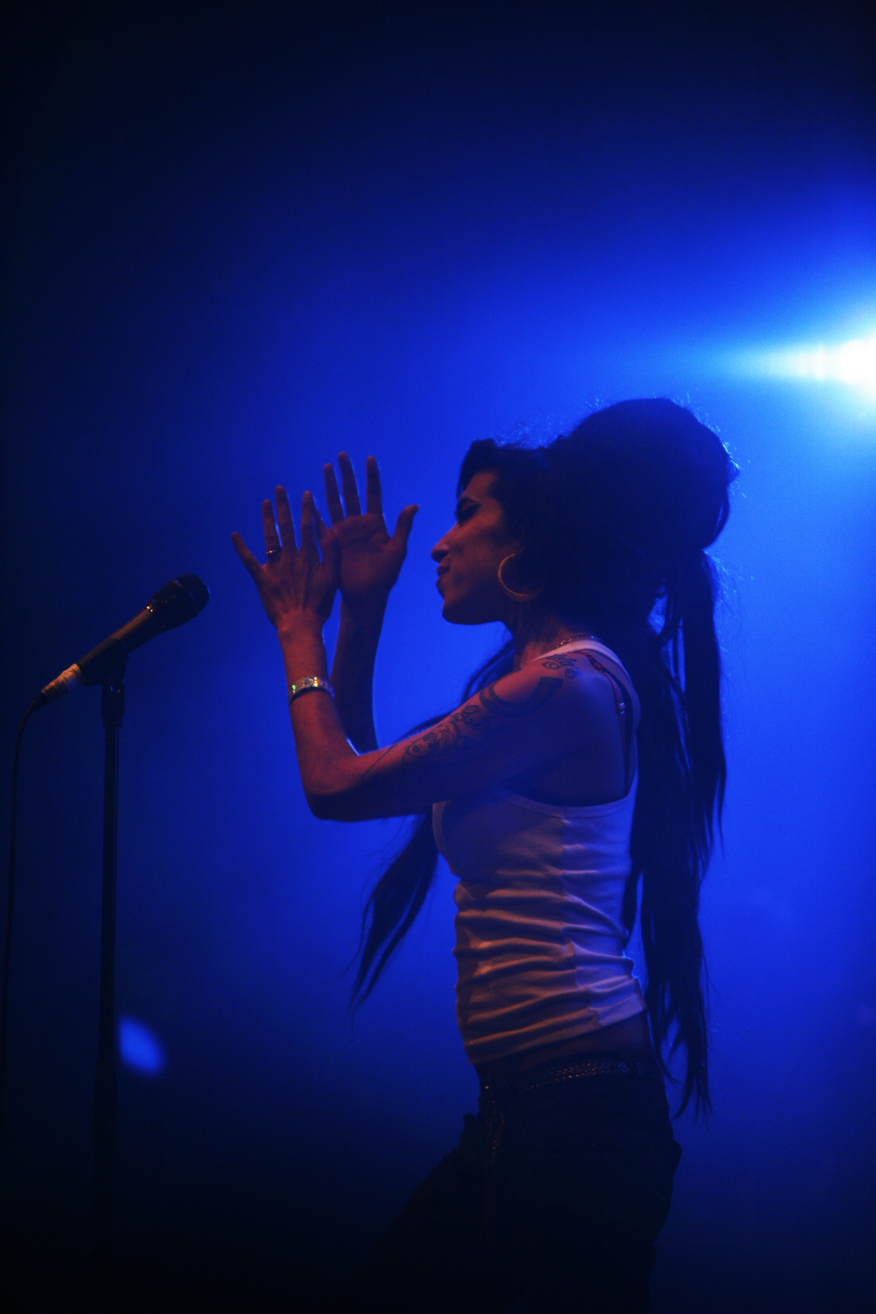 Amy Winehouse at the Eurockéennes of 2007